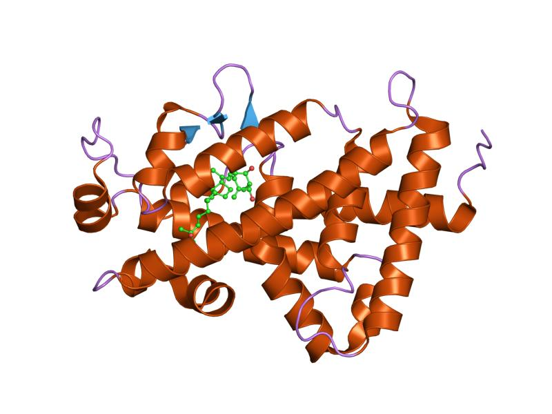 Cartoon representation of the molecular structure of protein registered with 2hb8 code.